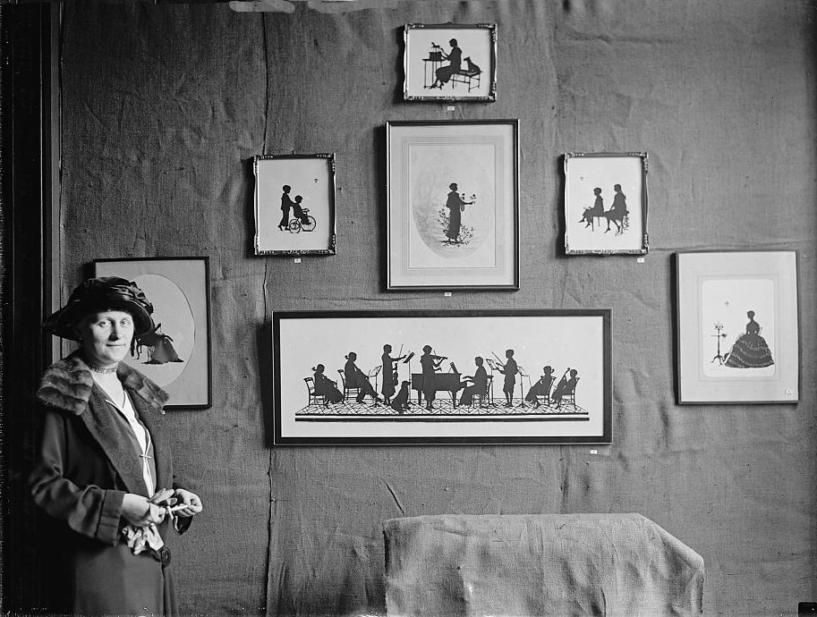 Title: Baroness Eveline Maydell at Corcoran Art Gallery, 4/2/25 Date Created/Published: [19]25 April 2. Medium: 1 negative : glass ; 4 x 5 in. or smaller Reproduction Number: LC-DIG-npcc-13321 (digital file from original) Rights Advisory: No known restrictions on publication. Call Number: LC-F8- 34981 [P&P] Repository: Library of Congress Prints and Photographs Division Washington, D.C. 20540 USA Notes: Title from unverified data provided by the National Photo Company on the negative or negative sleeve. Gift; Herbert A. French; 1947. This glass negative might show streaks and other blemishes resulting from a natural deterioration in the original coatings. Temp note: Batch three. Format: Glass negatives. Collections: National Photo Company Collection Part of: National Photo Company Collection (Library of Congress) Bookmark This Record